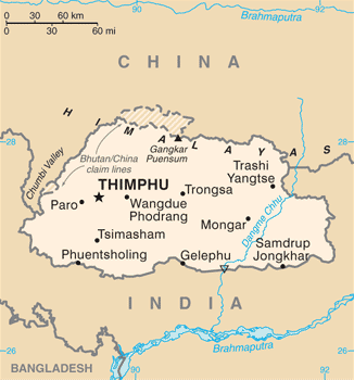 Bhutan map from CIA World Factbook (since June 24, 2010)